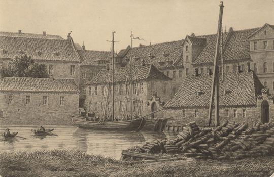 The Tøjhus Dock at Slotsholmen with Rigsarkivet visible to the left and Proviantgården to the right in Copenhagen, Denmark